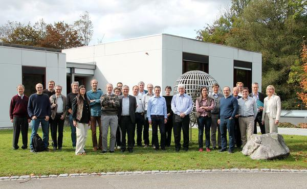 MFO Description: Occasion: Meeting of the Oberwolfach Committees 2016 Annotation: Wissenschaftliche Kommission der GMF Location: Oberwolfach